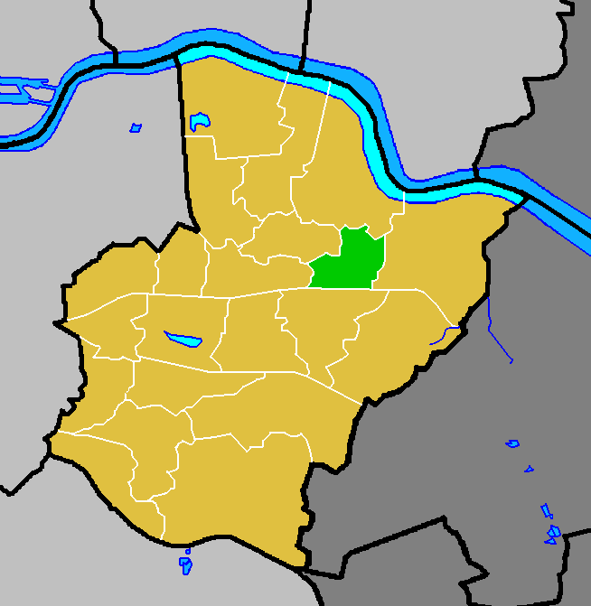 Colyers ward (green) within the London Borough of Bexley (yellow).